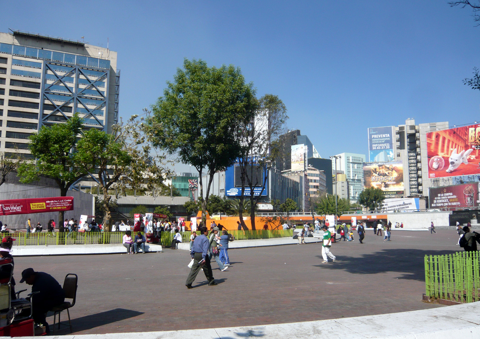 Glorieta de los Insurgentes, Mexico City